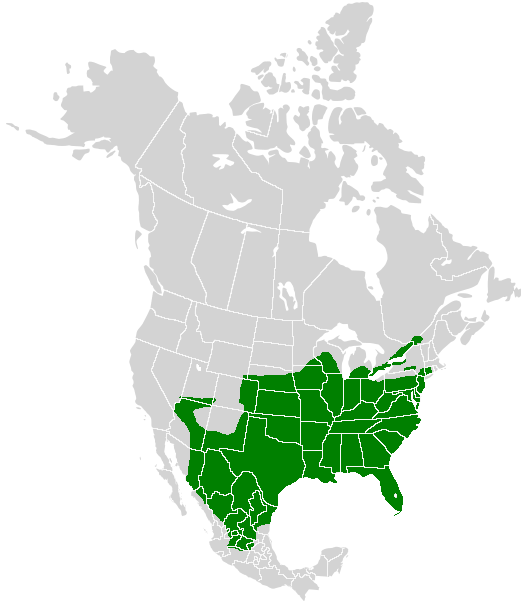 A range map showing the distribution of the Hackberry Emperor (Asterocampa celtis).